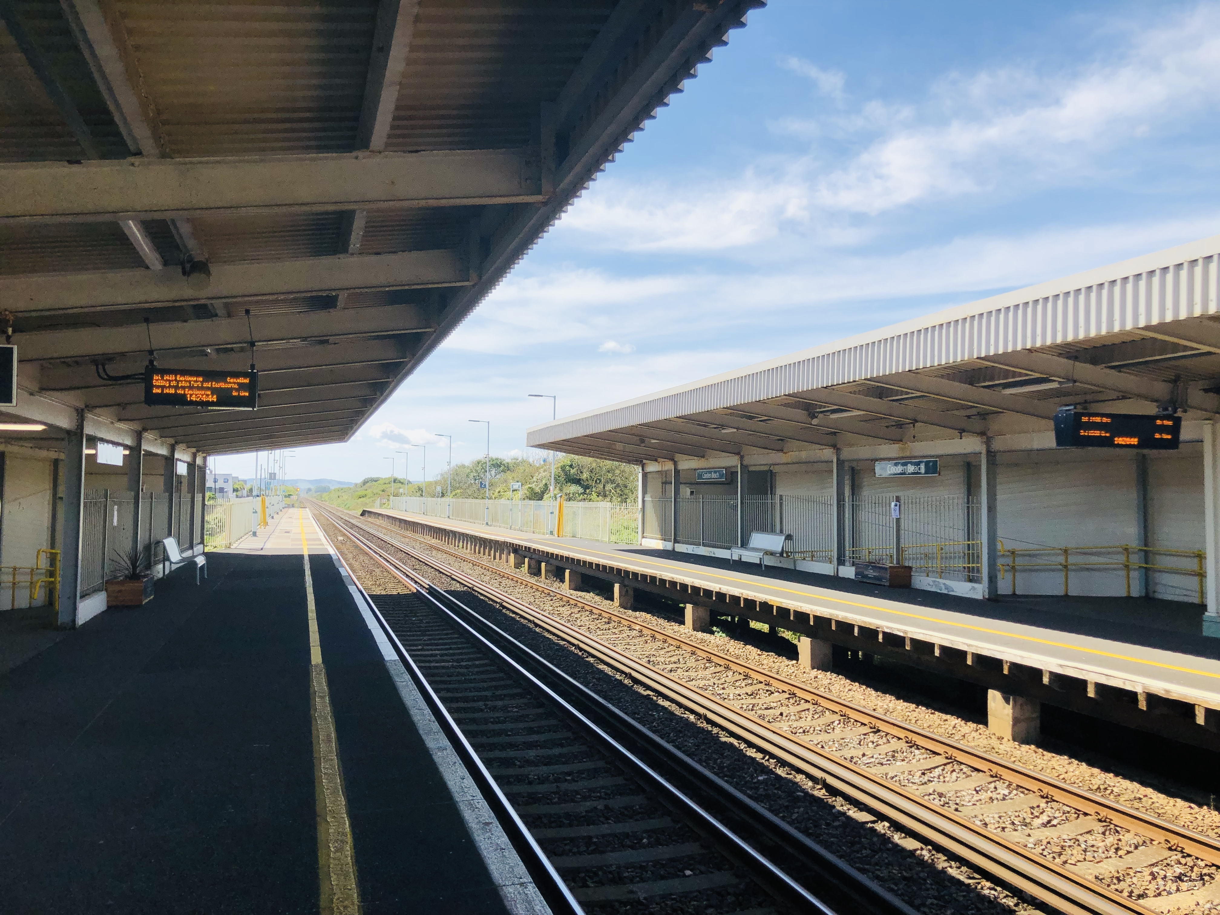 The platforms at Cooden Beach railway station, looking west towards Eastbourne. Picture taken from the eastern end of the westbound platform 1.